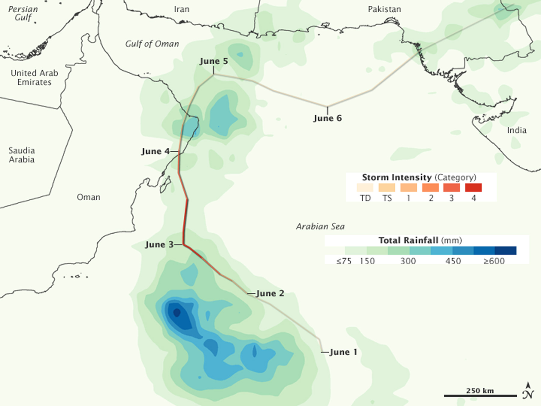 This TRMM satellite rainfall estimate map showed Cyclone Phet's heaviest rainfall (600 or more millimeters/23.6 or more inches) occurred over open waters of the Arabian Sea (blue) Northeast Oman received as much as 450 millimeters (17.7 inches), while Pakistan received between 150-300 millimeters/ 5.9-11.8 inches. The colored line indicates storm track and intensity according to the Saffir-Simpson hurricane scale.